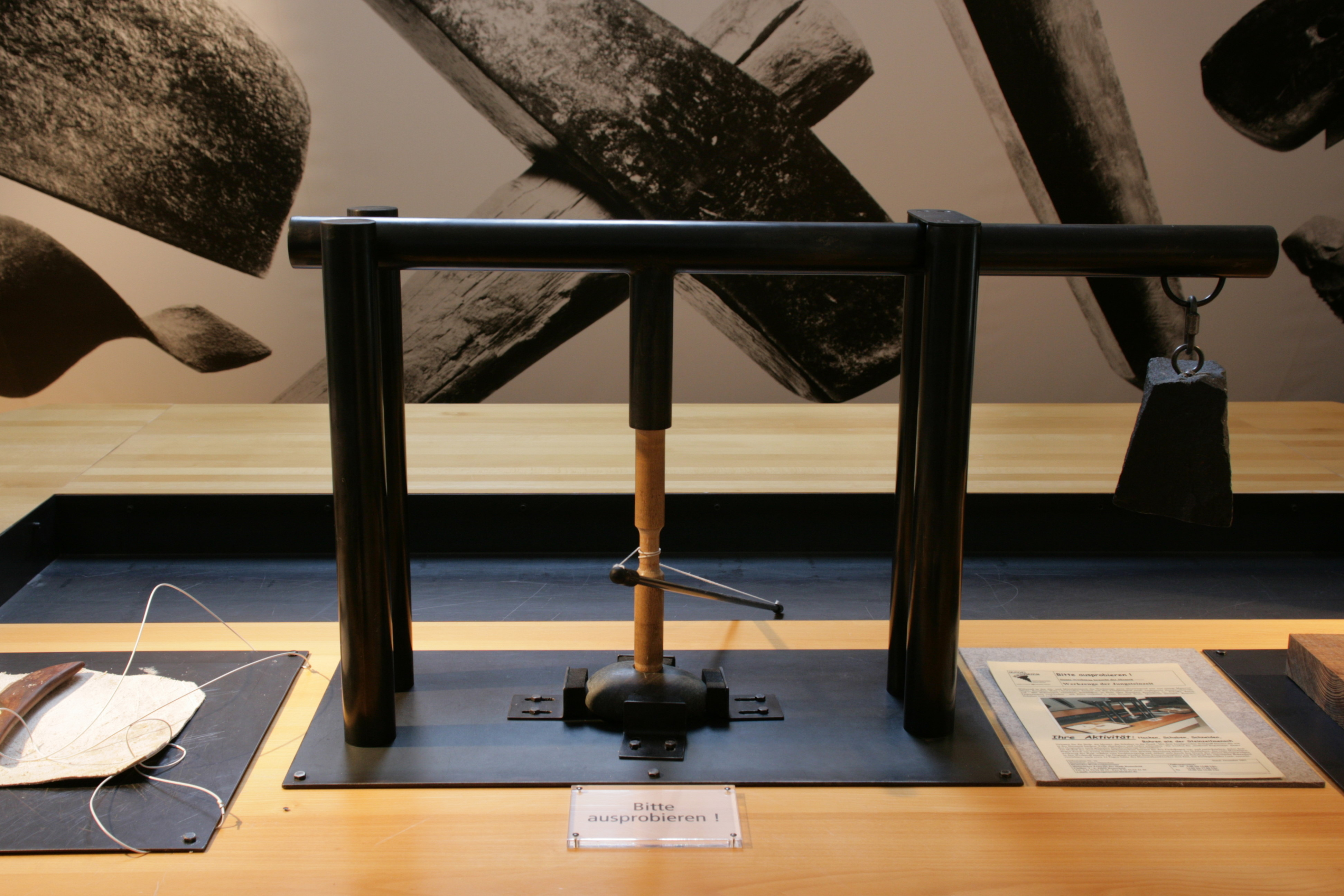 Deutsches Werkzeugmuseum, Cleffstraße 2-6 in Remscheid